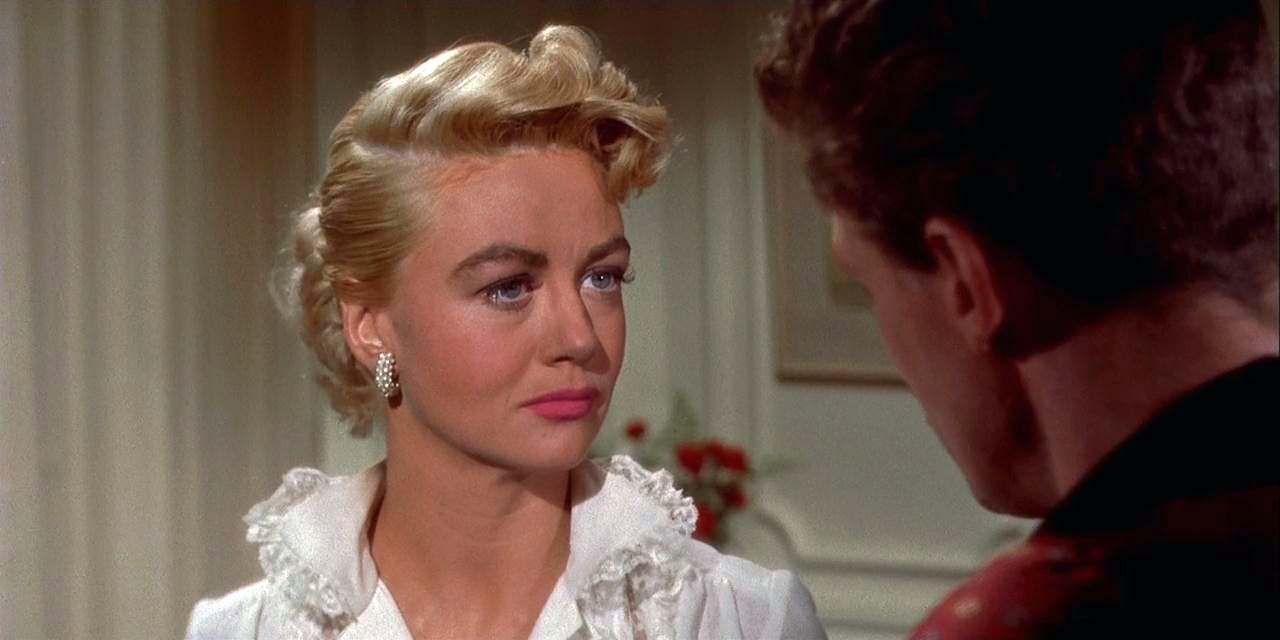 Screenshot of Dorothy Malone from the trailer for the film Written on the Wind